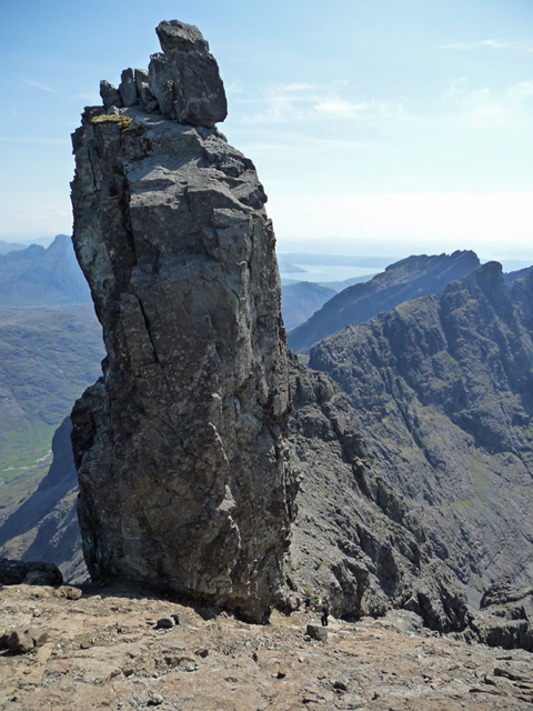 The Inaccessible Pinnacle The most difficult high mountain summit in the UK. The 986m top of the pinnacle overtops Sgurr Dearg, from where this picture was taken, by about 8m. The drops off either side are abysmal.